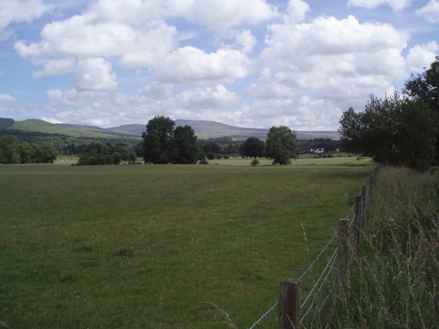 Farmland. Farmland surrounding Claish Farm